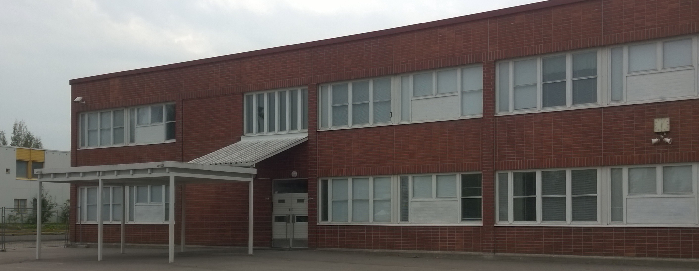 Suutarila primary school, Suutarila, Helsinki, Finland. - Seen from east.